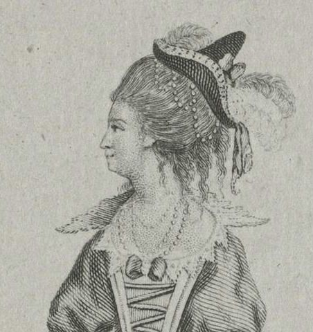 Cropped version of an engraving of actress Mary Bulkley (1747/8-1792) as Mrs Ford in The Merry Wives of Windsor, 1776. She was born Mary Wilford; her two married names were Bulkley and Barrisford. She was known professionally as Mrs Bulkley. Her biography is here.